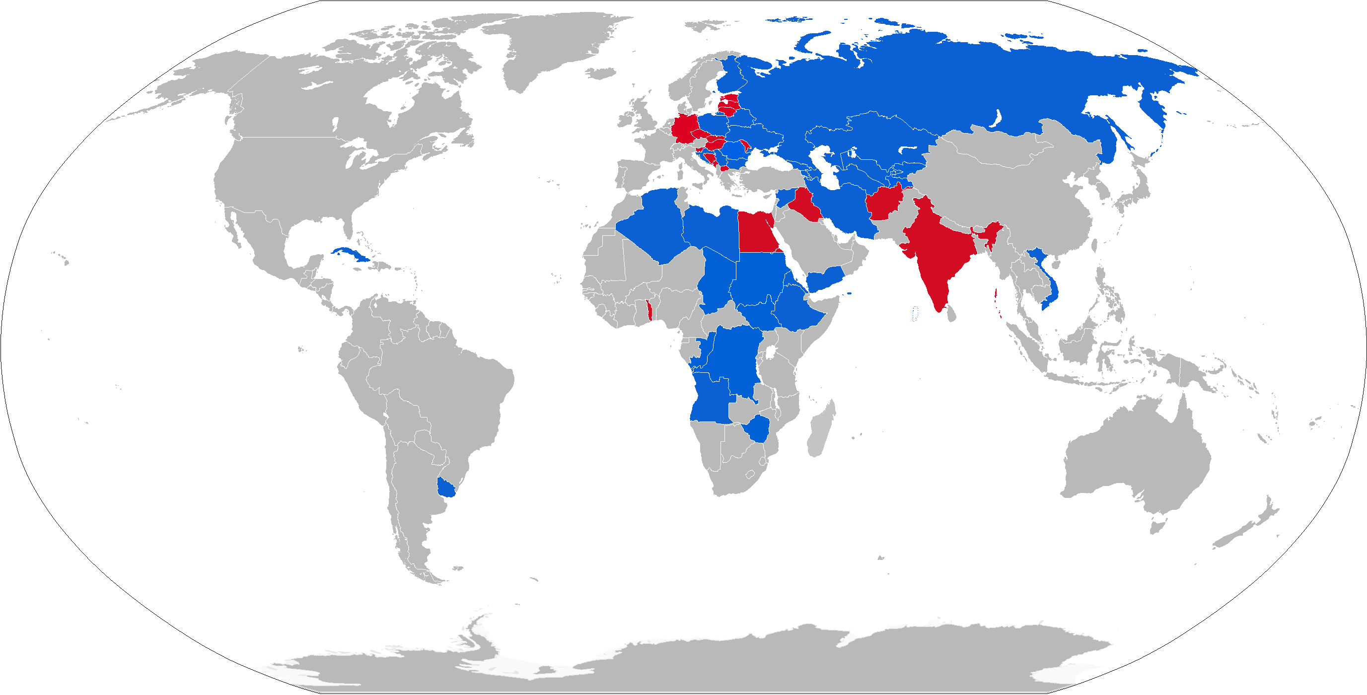 Map of 2S1 operators in blue with former operators in red